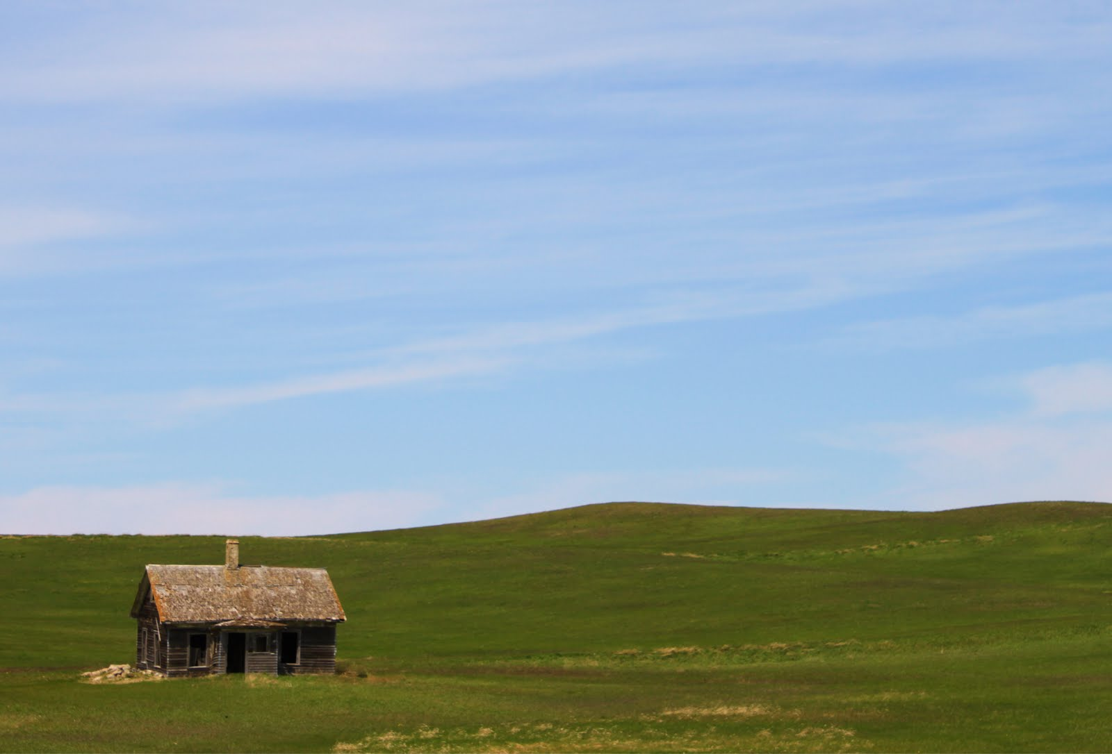 Prairie Homestead, Milepost 213 on I-29, South Dakota (May 2010). Photo by Peter Rimar.